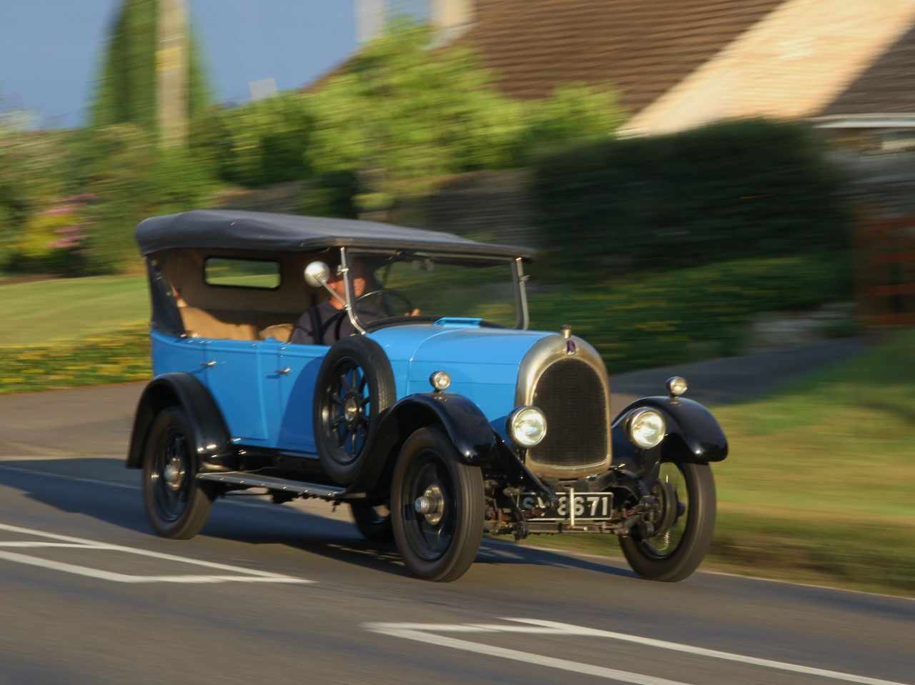 1927 Bean "Short 14" faux cabriolet on the A4095 road at Long Hanborough, Oxfordshire